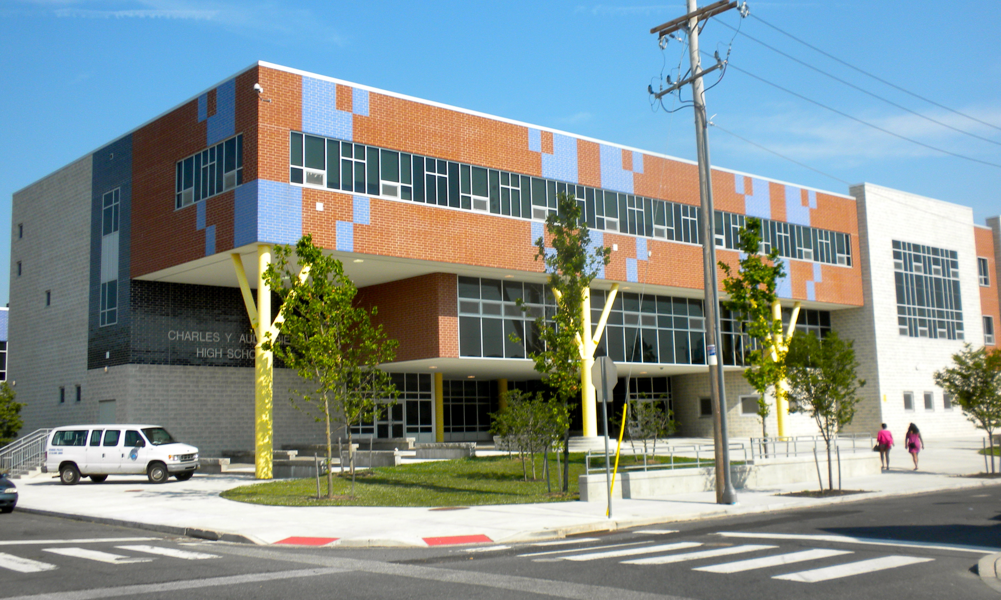 The new Charles Y. Audenried High School which replaced the old Charles Y. Audenried Junior High School, which was on the NRHP since November 18, 1988. Located at 3301 Tasker St. in the Grays Ferry neighborhood of south Philadelphia. Note Alcorn School, also on the NRHP is about 1.5 blocks north.